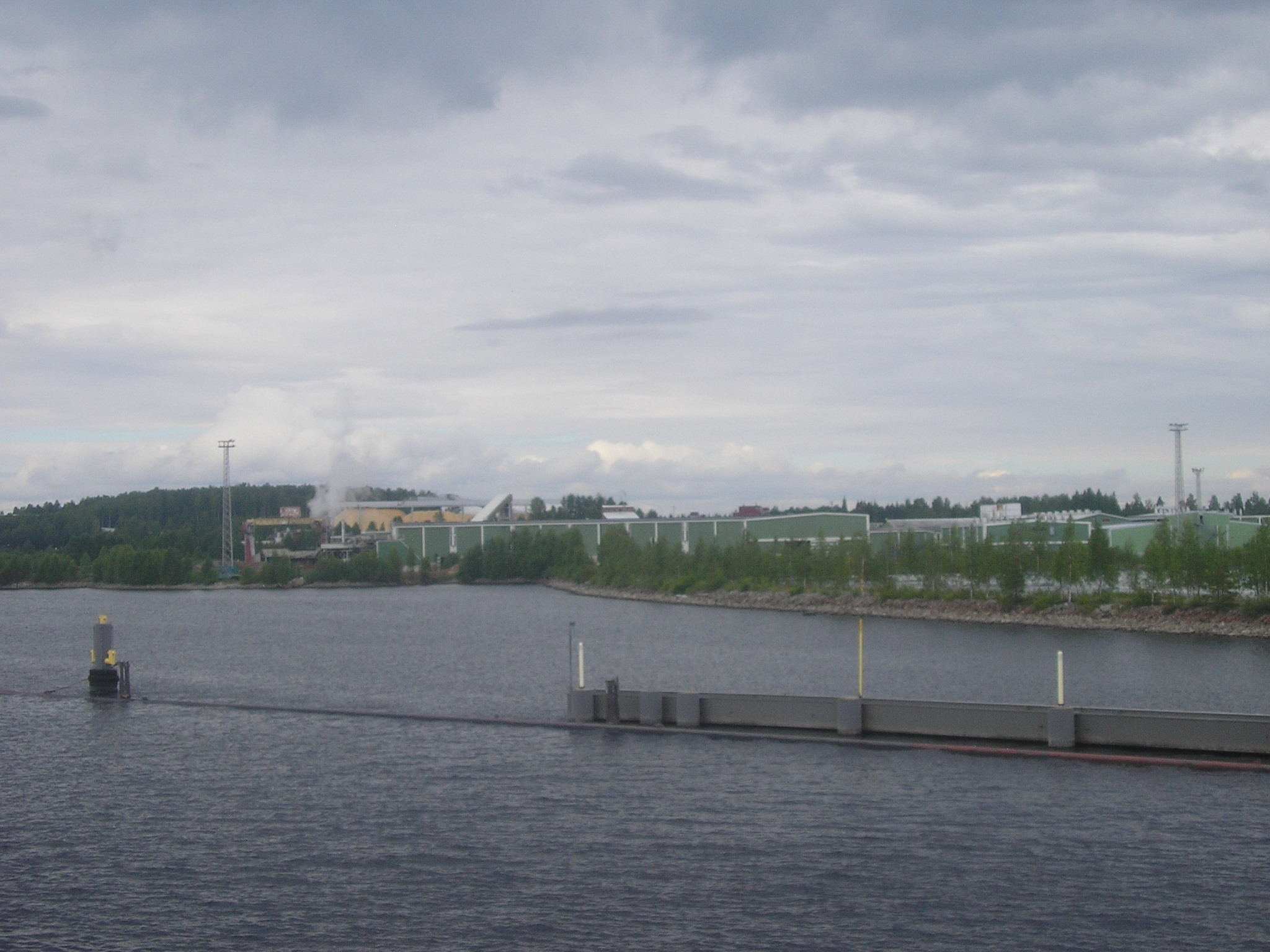 Stora Enso Uimaharju sawmill in Finland